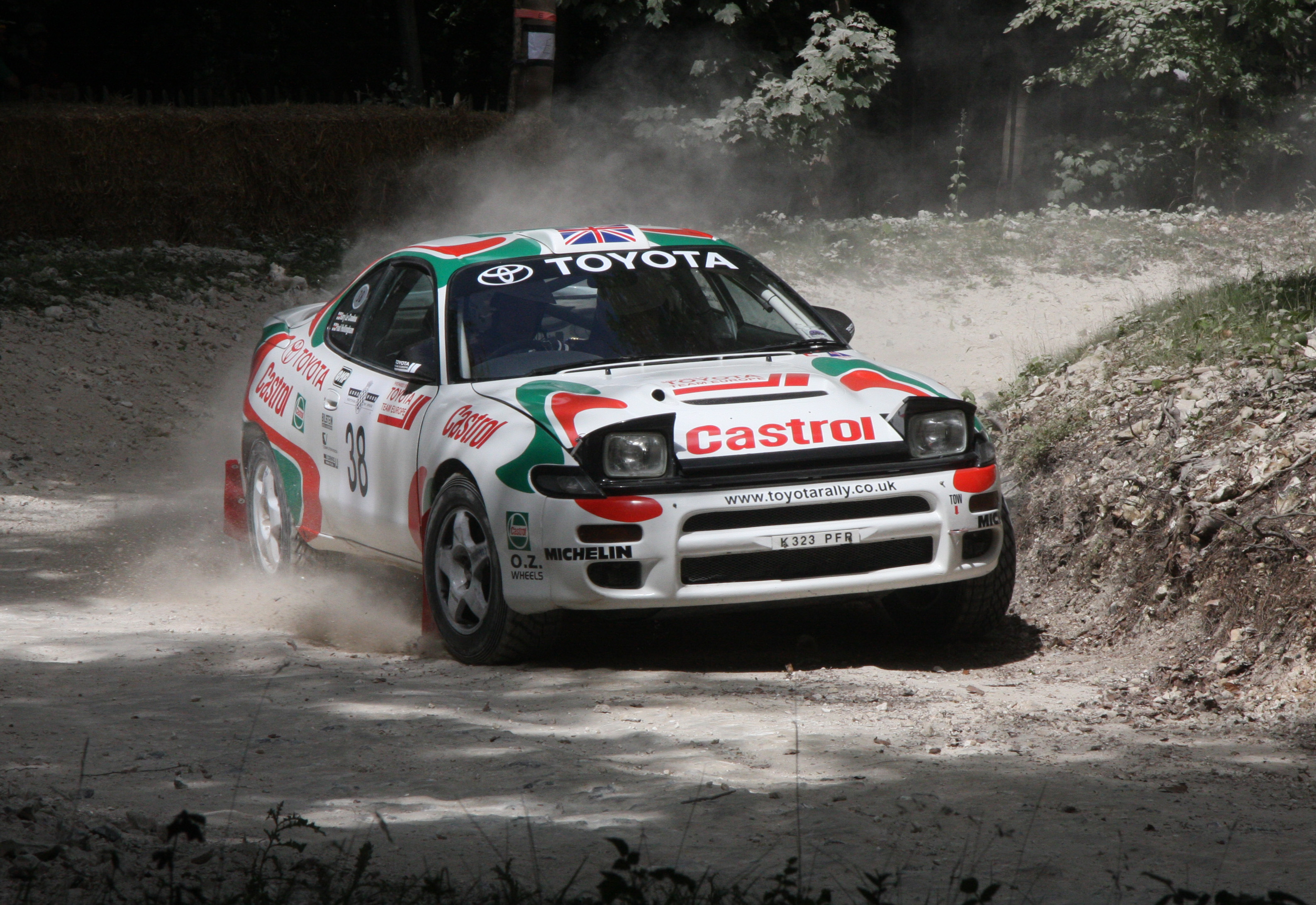 Toyota Celica GT-Four / Turbo 4WD (ST185) rally car.